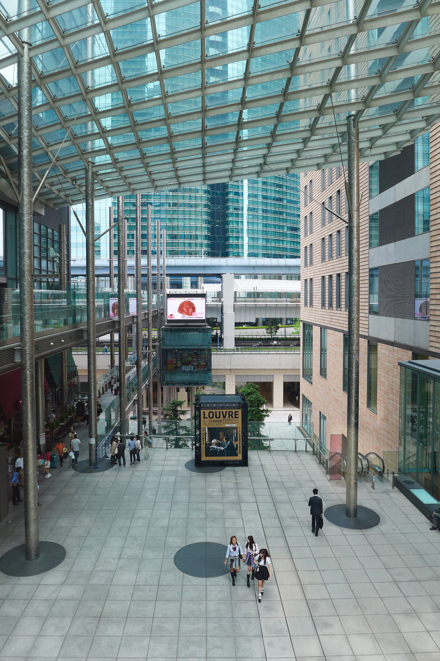 Shiodome NTV Tower outside space